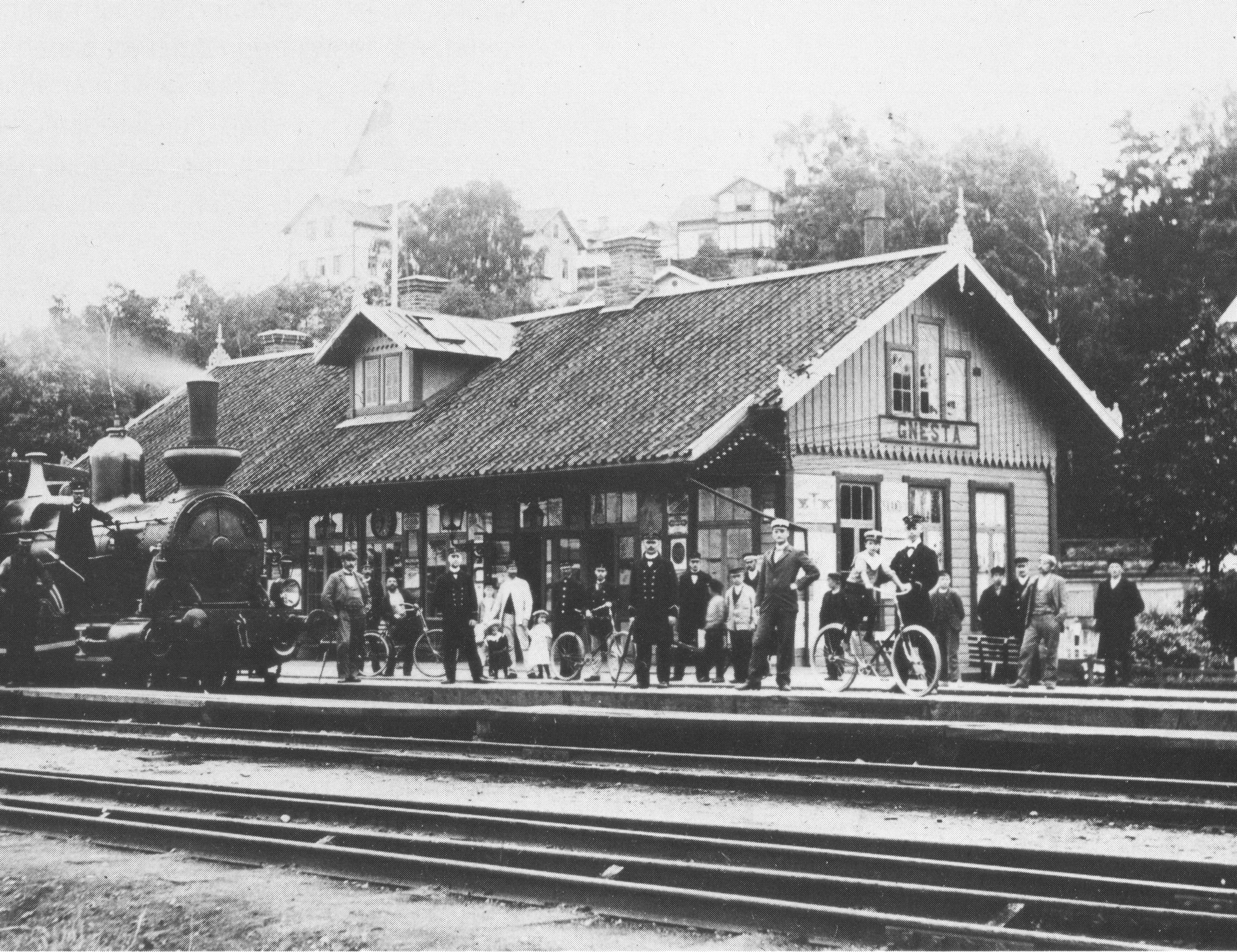 Gnesta railway station, built in the 1860s. The house was replaced in 1907 by a brick building.